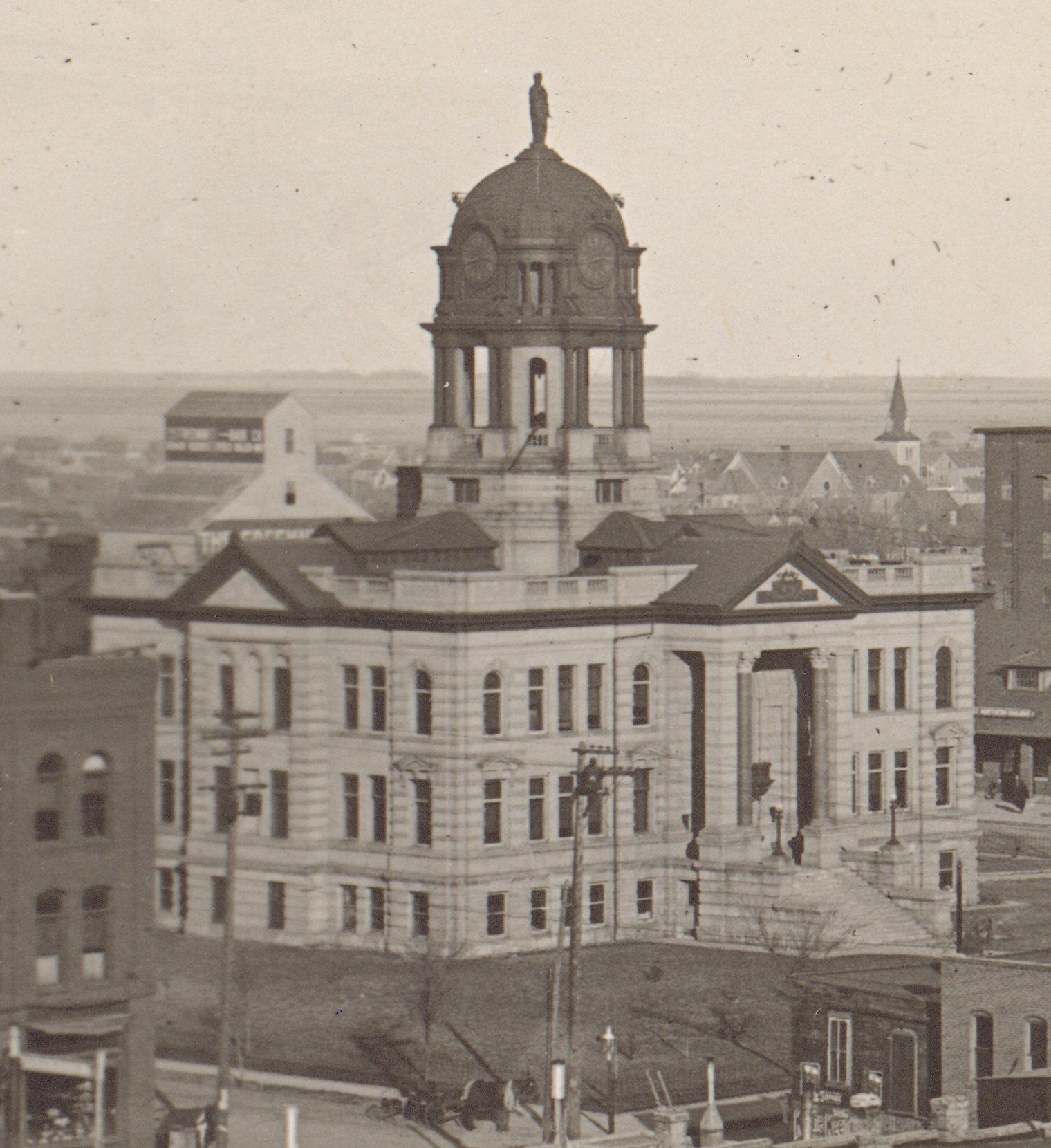 NRHP-listed Brown County Courthouse in Aberdeen, South Dakota. Restored to remove text and arrows from original image.